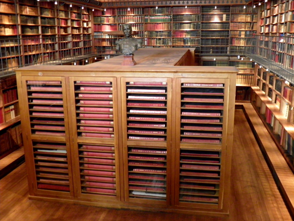 Drawings cabinet, in the middle of the Bibliothèque du théâtre, château de Chantilly, Musée Condé, Oise, France